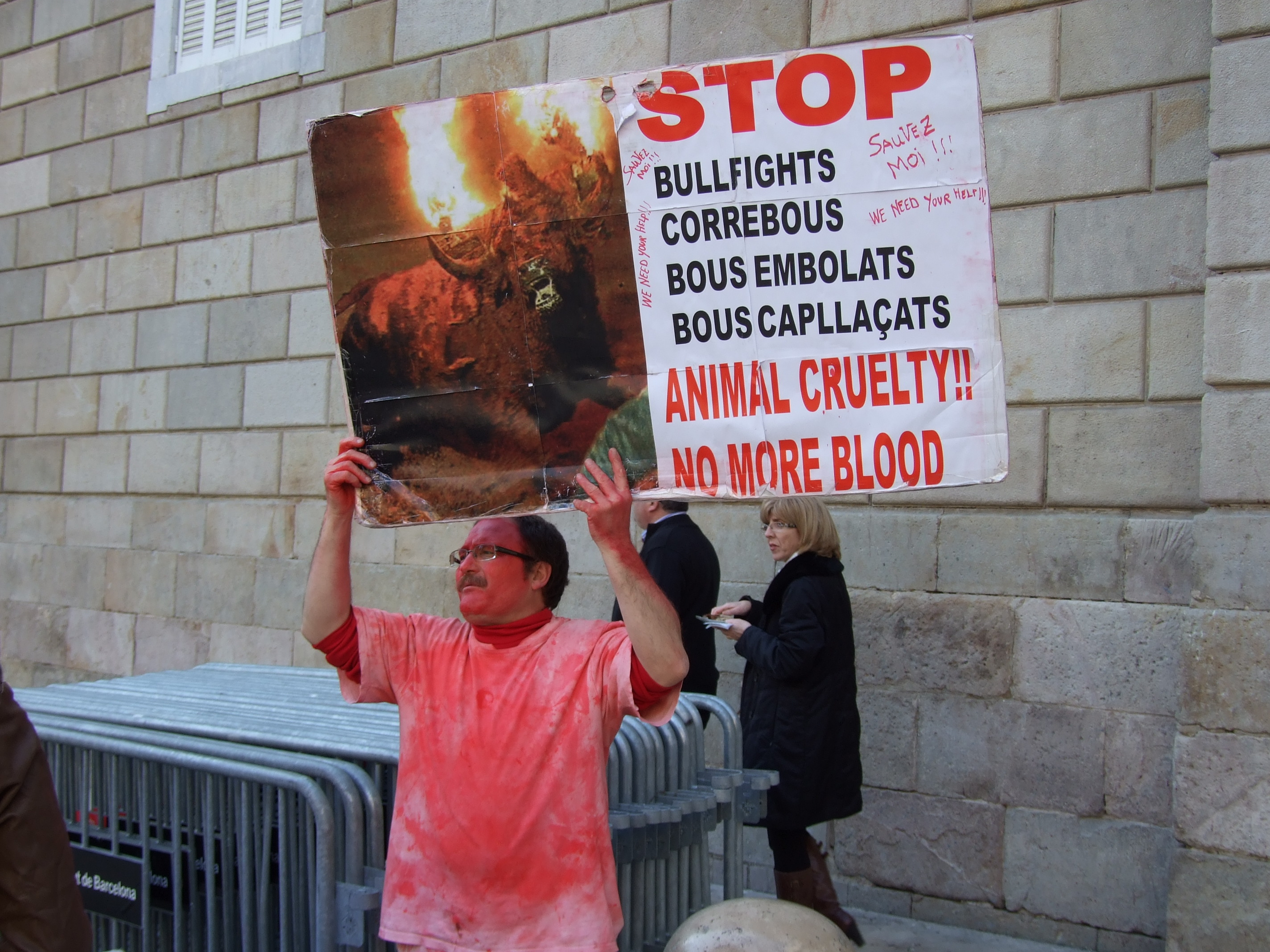 Anti-Bullfight Activist